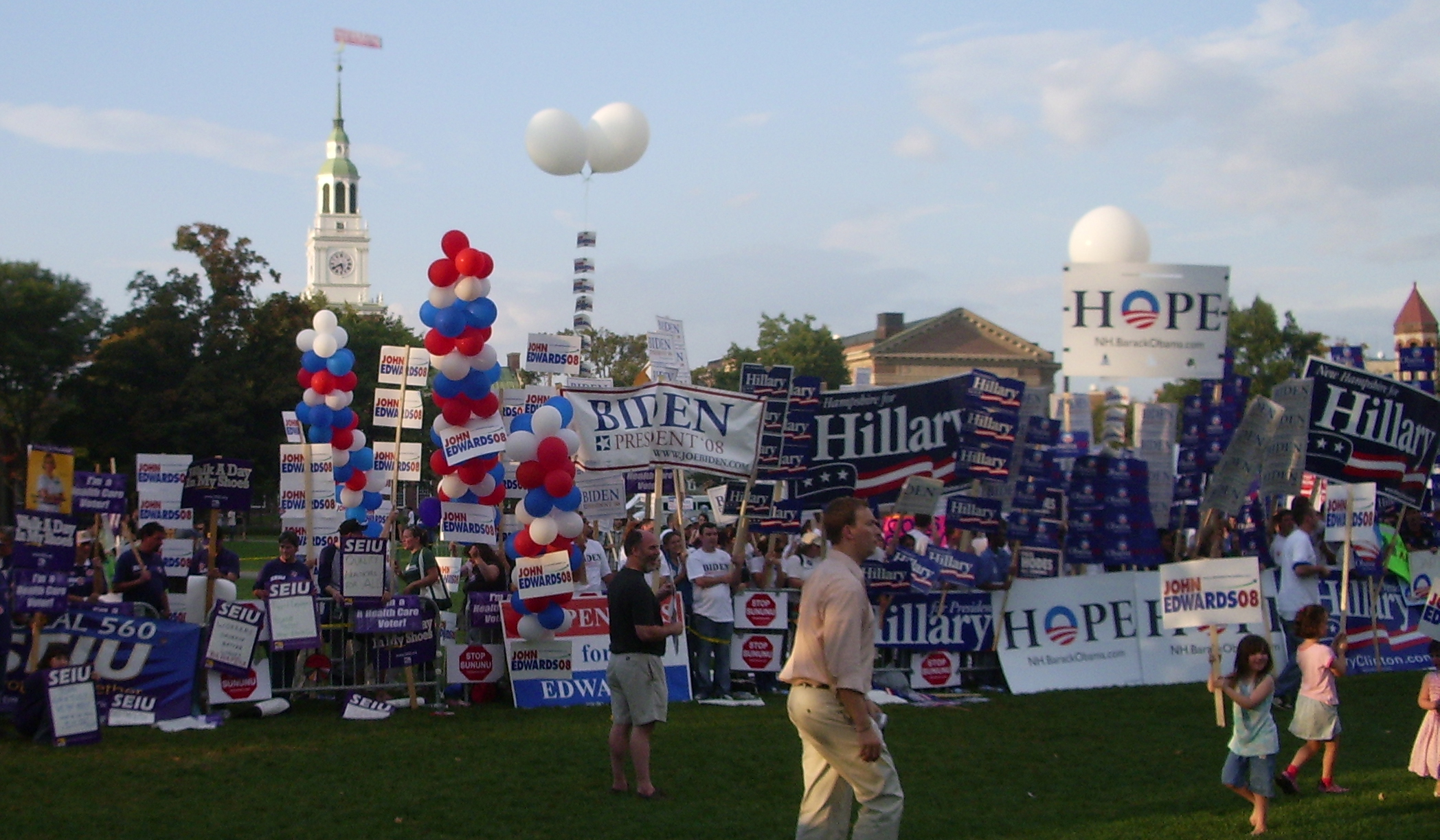 Students and community members rally on The Green at Dartmouth College in Hanover, New Hampshire on the day of a Democratic presidential candidates debate